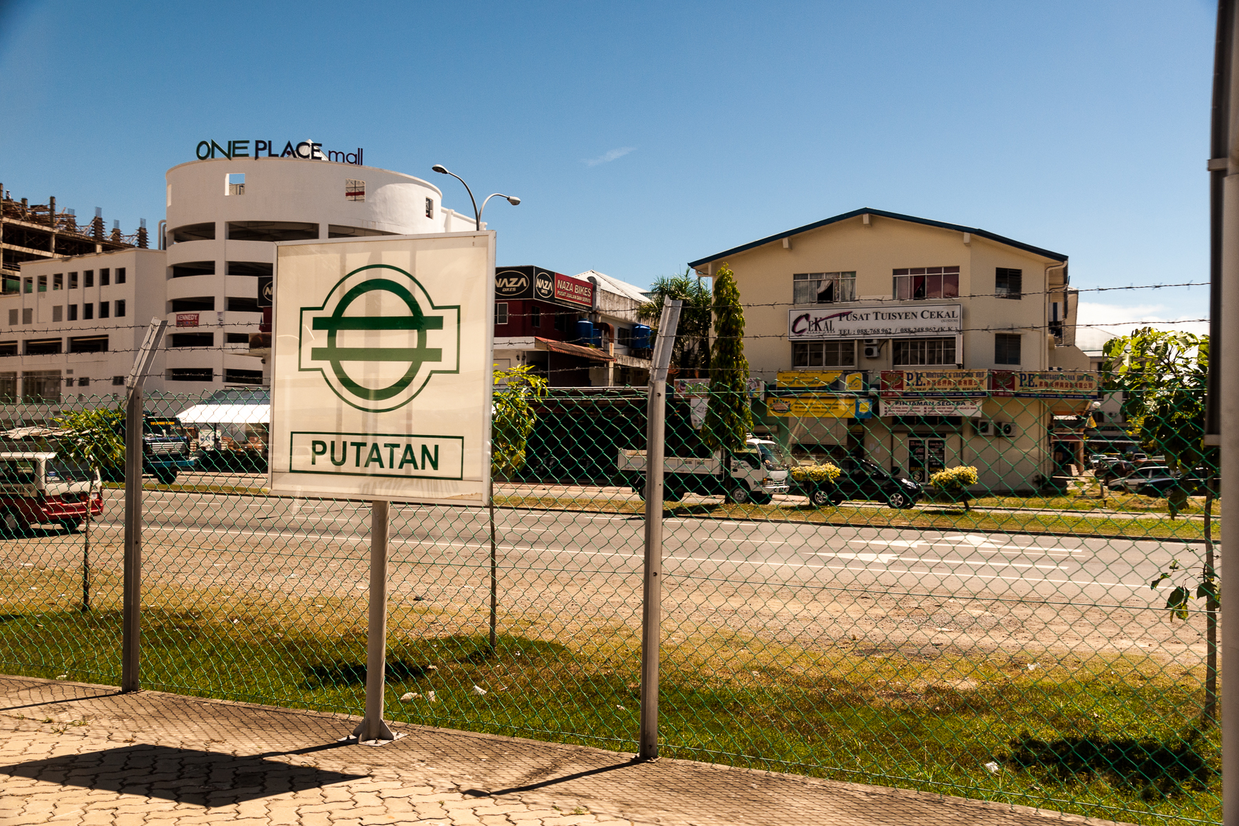 Sabah State Railway: Station Plate of Putatan Railway Station